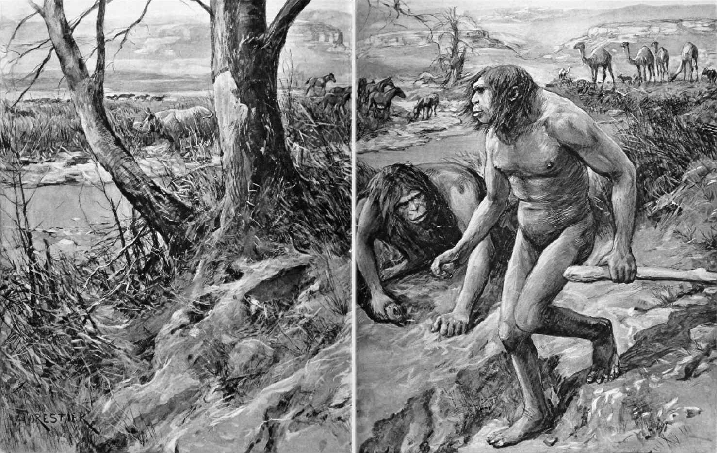 A full scan of the Nebraska Man illustration